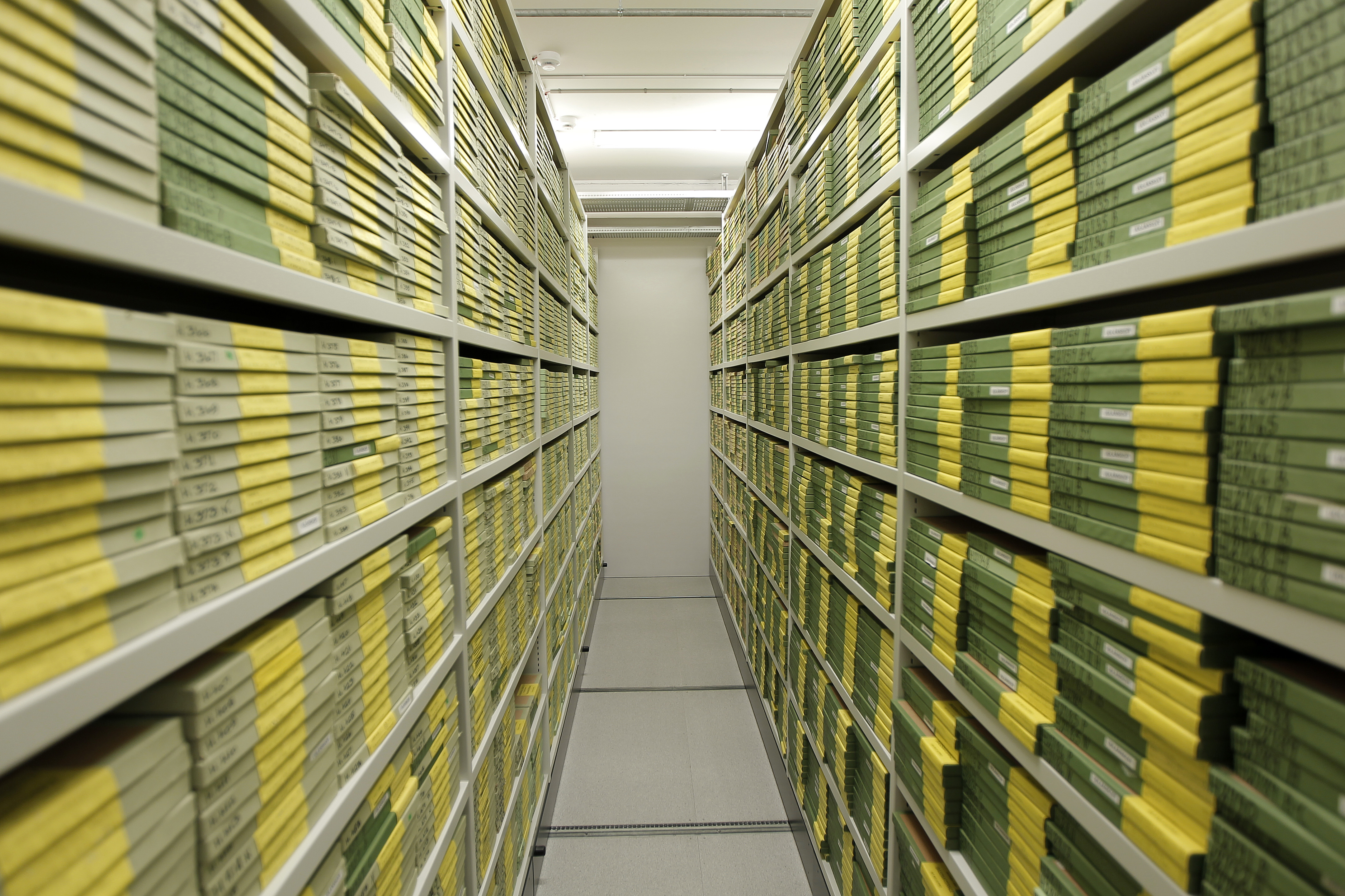 Danmarks Radios arkiv af DRs Kulturarvsprojekt / The archive of the Danish Broadcasting Corporation Photos must be credited "DRs Kulturarvsprojekt"